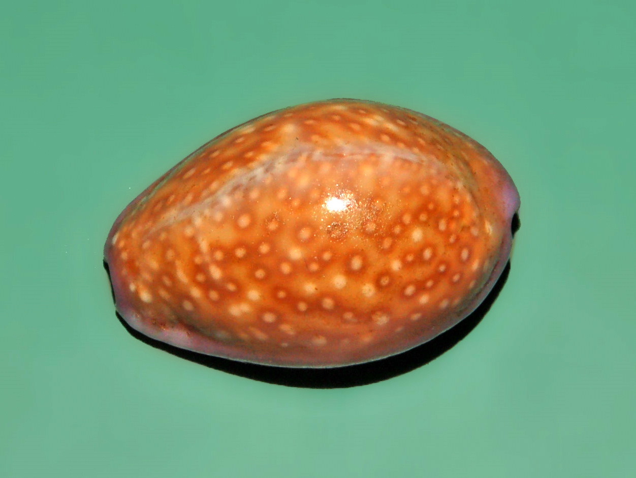 Naria poraria